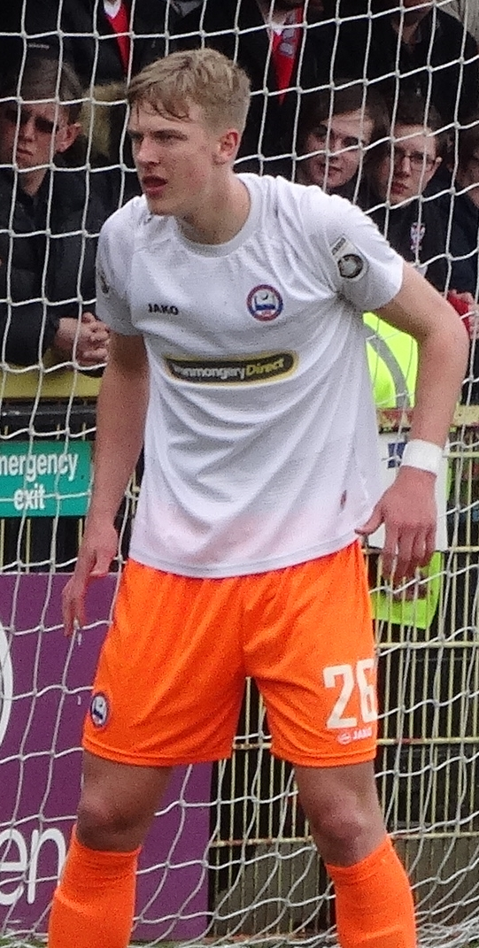 Kris Twardek playing for Braintree Town against York City at Bootham Crescent, York on 1 April 2017